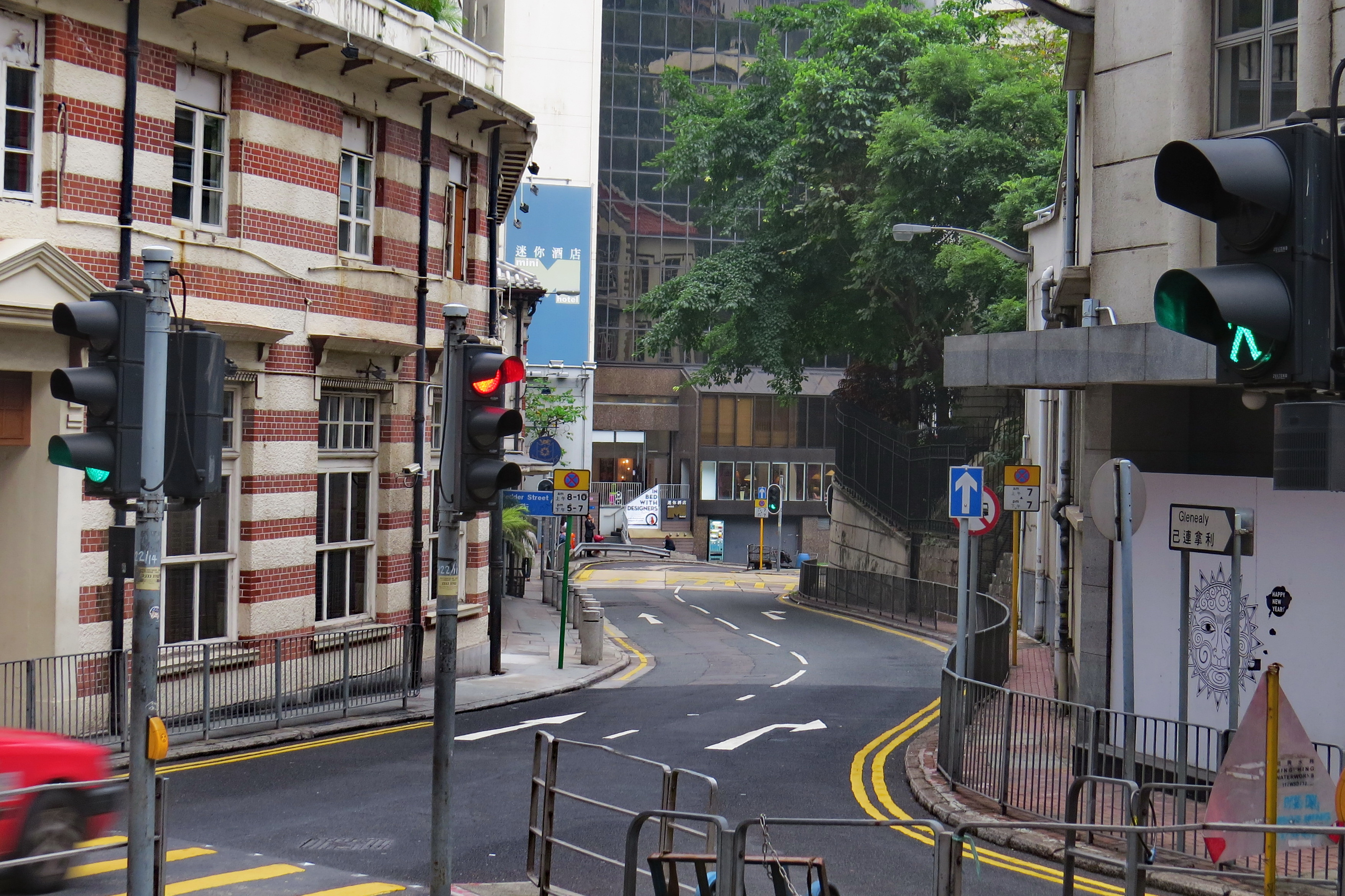 Lower Albert Road near Glenealy, Central, Hong Kong.